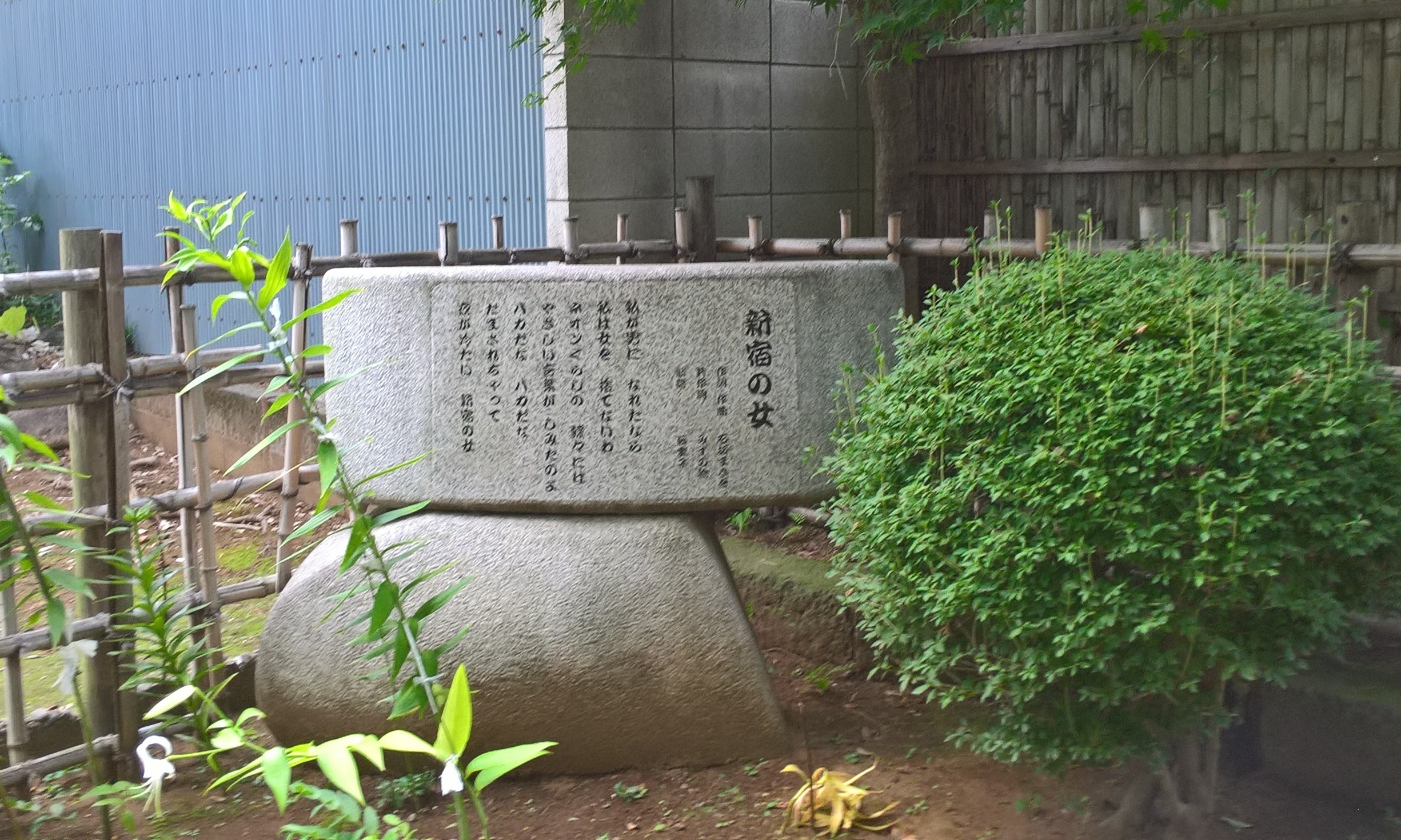 Monument of Shinjuku no Onna in Nishimuki tennjinsya